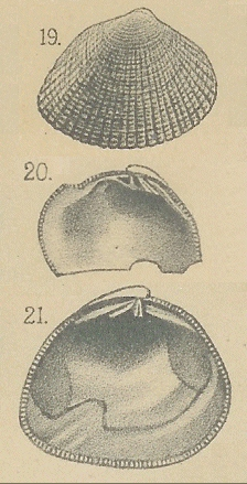 Timoclea ovata - Small fossil bivalved shell from Eemian deposits in the Netherlands